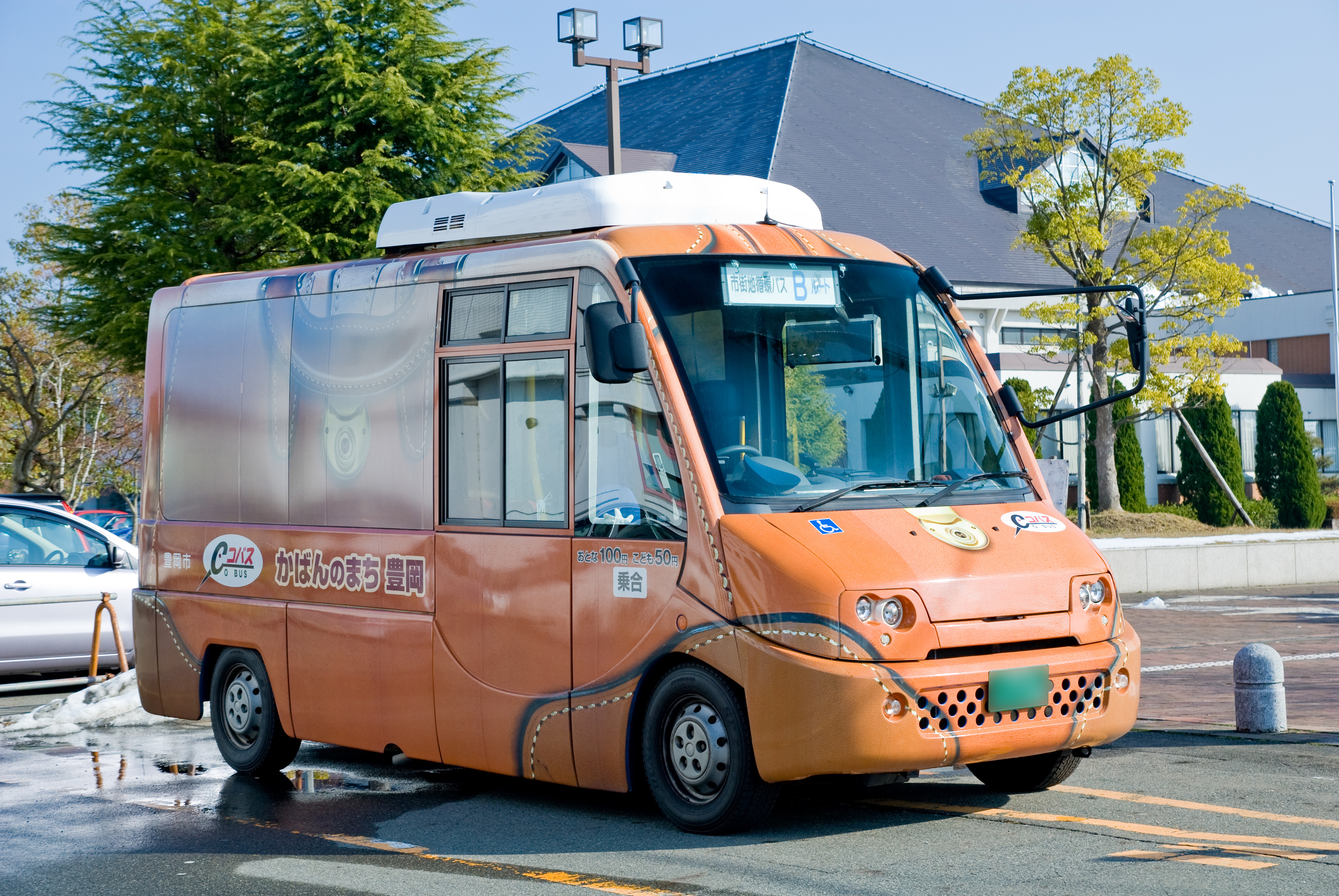 Community bus "Cobasu" in Toyooka, Hyogo prefecture, Japan.